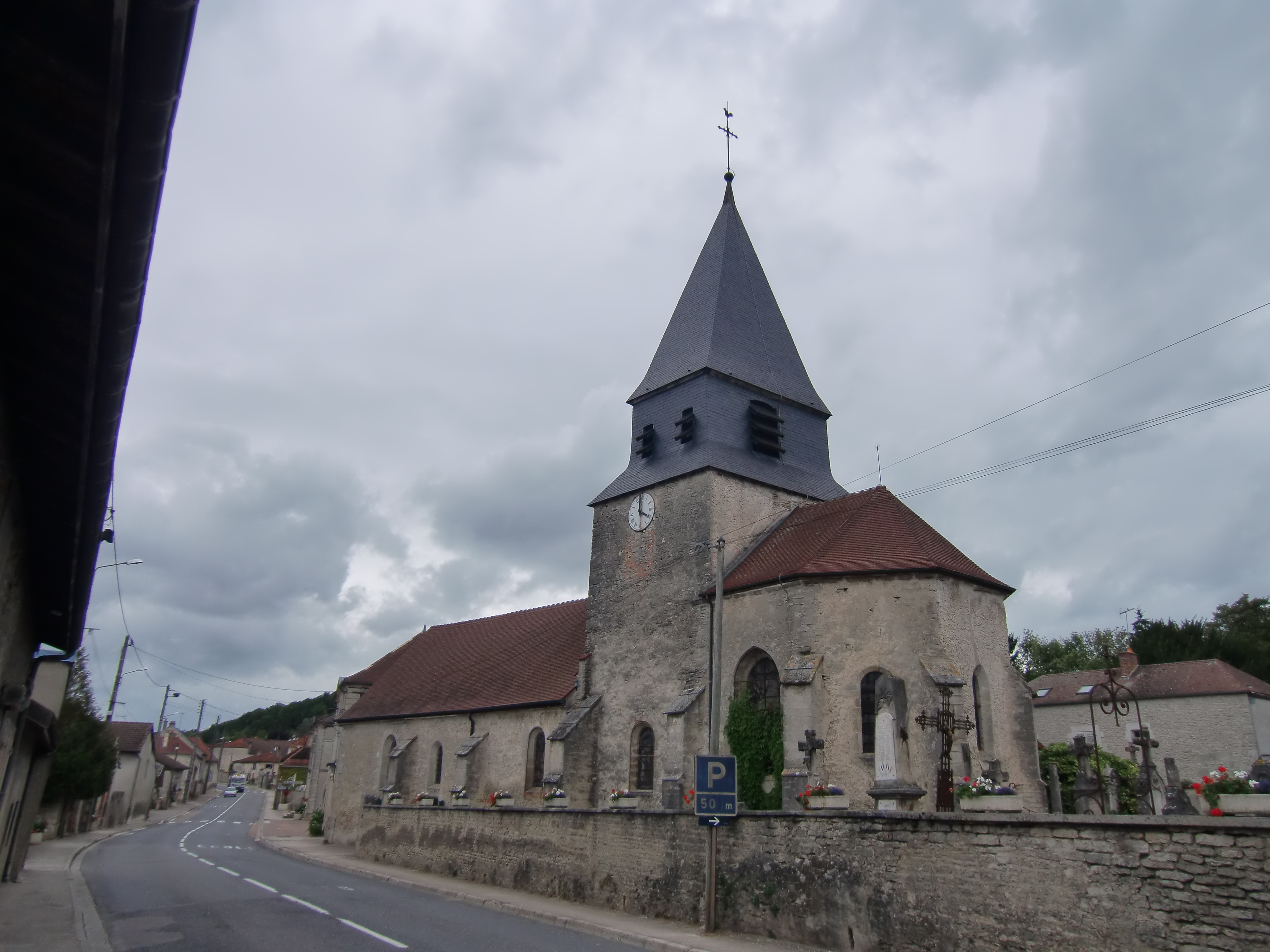 Église d'Arsonval (Aube, France)